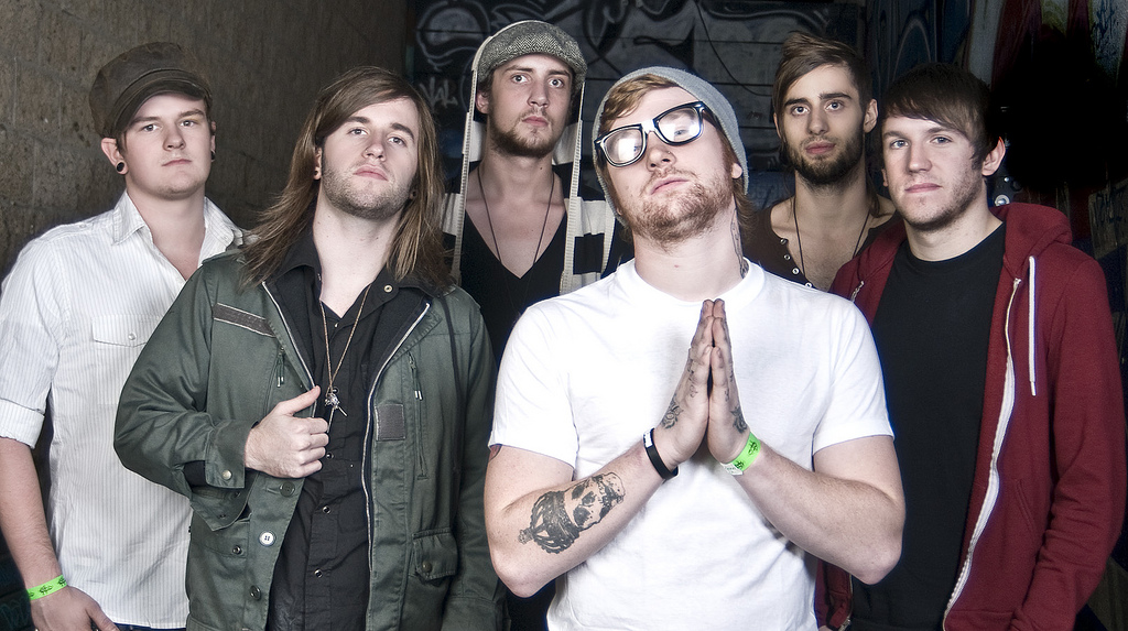 Photo of members of the band Emarosa.